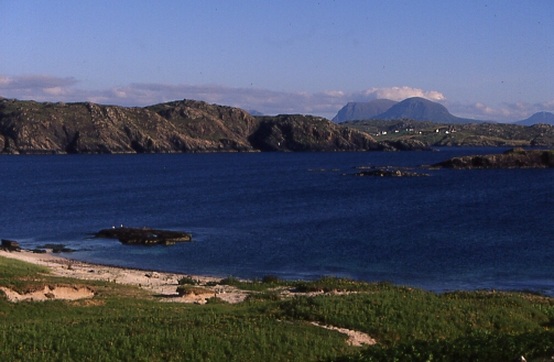 Quinag and Scourie from Handa This view across the Sound of Handa from the south side of the island shows part of the village of Scourie and Quinag in the background